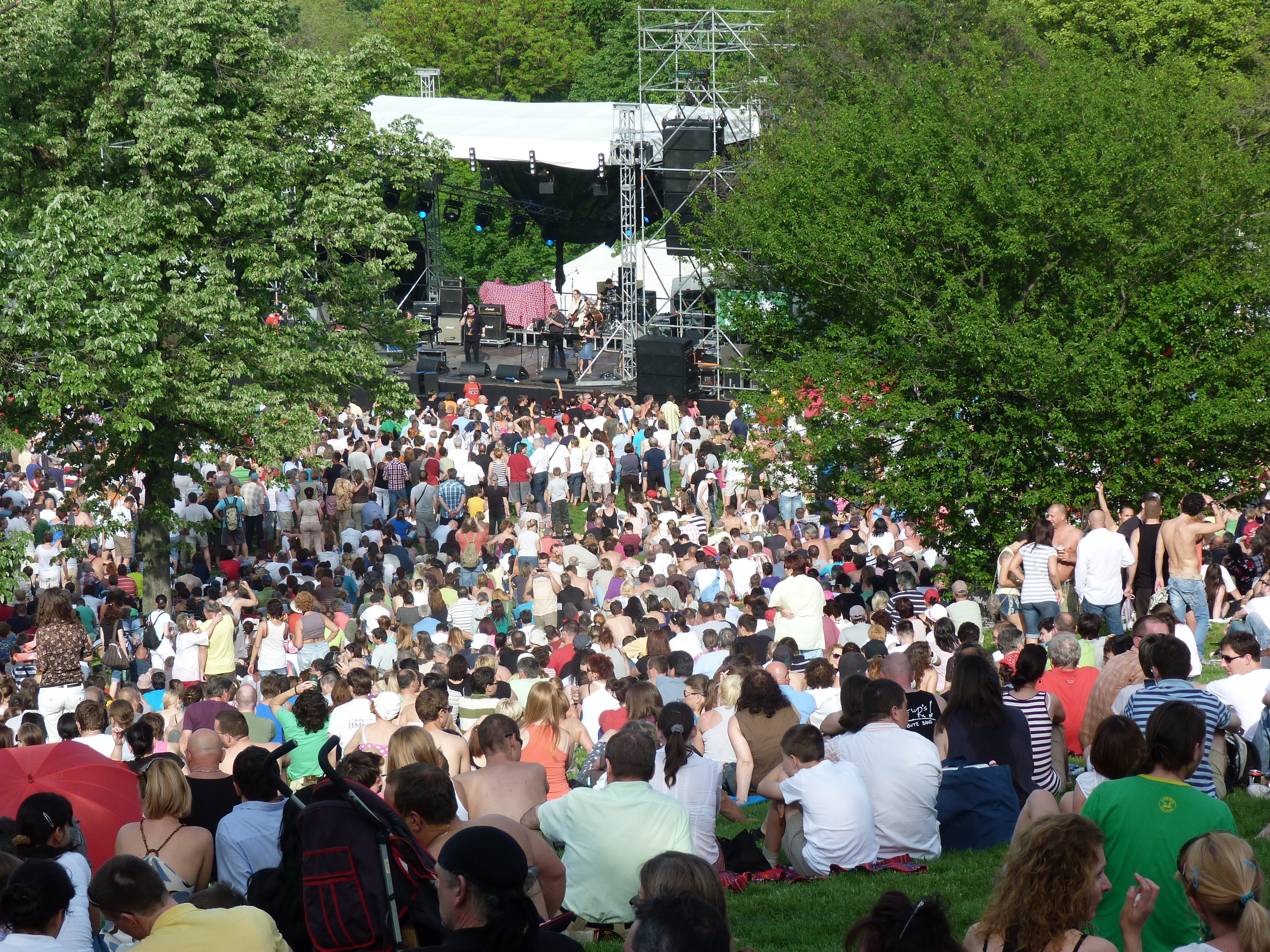 Live on May Day, the 1st of May, 2013. Tabán, Budapest. Török Ádám and the Mini Co. ©© Derzsi Elekes Andor, Budapest, 2013, You are authorised to use these photos and vids under Creative Commons – even for commercial, for profit purposes. Photos must be attributed to Derzsi Elekes Andor. All of the photos and vids in the Metapolisz DVD line are under Creative Commons and can be used even for commercial – for profit – purposes. Recommended Citation Derzsi Elekes Andor: Metapolisz DVD line